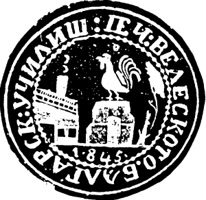 Seal of the Veles Bulgarian School 1845